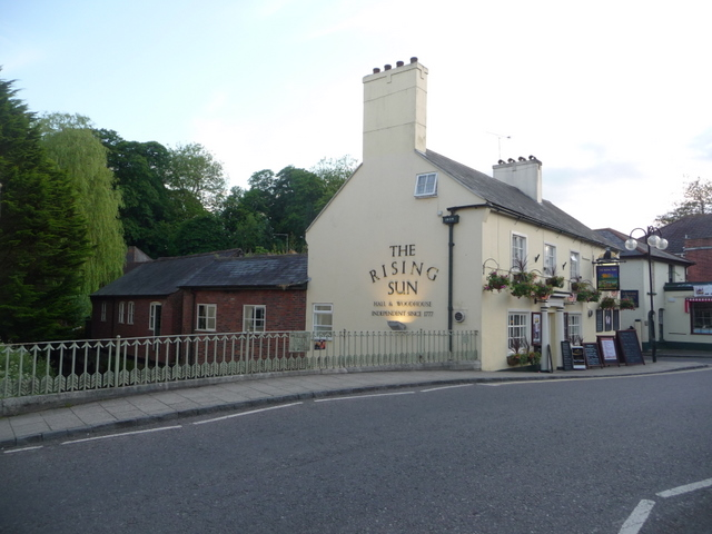 Wimborne Minster: the Rising Sun A pub on East Street, alongside the River Allen.